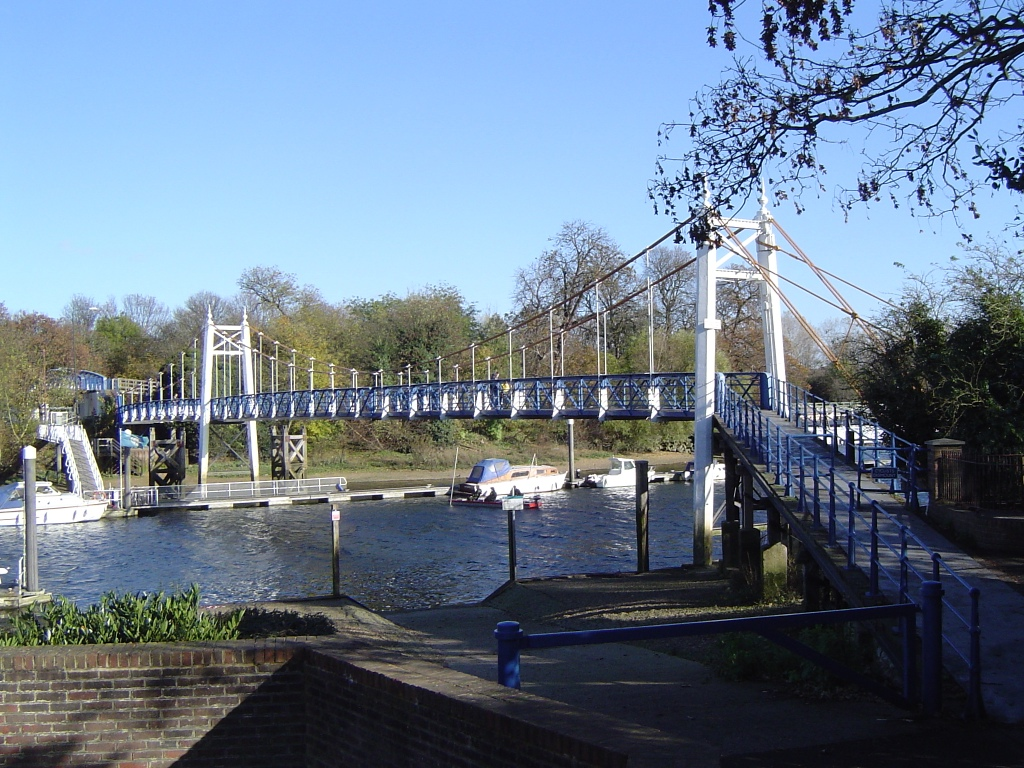 Teddington Lock footbridge - Suspension bridge on Middlesex side